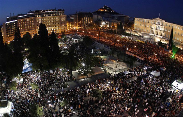 Greece Uprising. Image of the Syntagma square garden. 100.000 people gathered at the centre of Athens on Sunday, 29/5/2011. It was the first day of the people's protest against IMF in european cities.